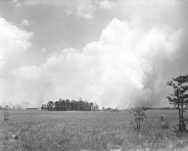 Wildfires near Turner River in the Everglades.